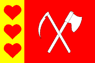 Flag of Moravice, Opava district, region Moravosilesian